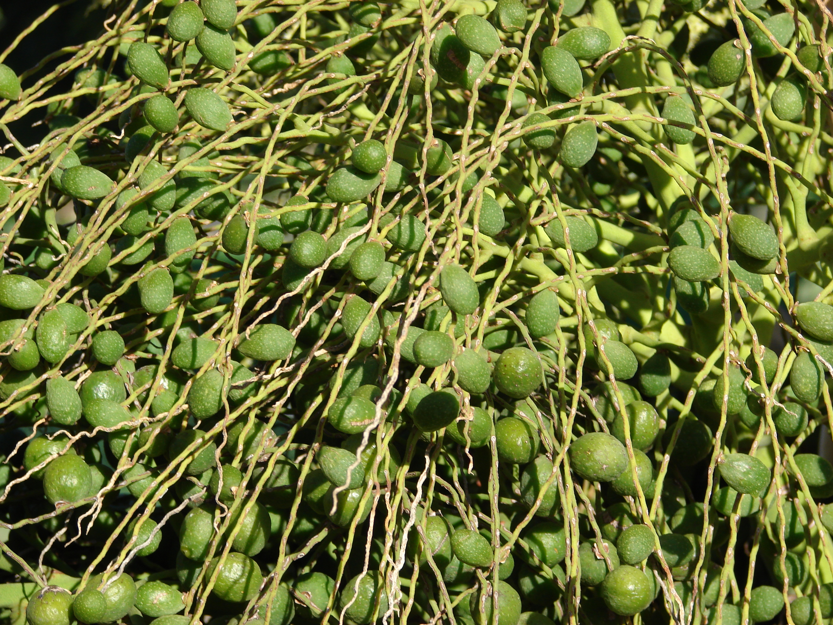 Unknown arecaceae (fruit). Location: Maui, Holy Rosary Church Baldwin Ave